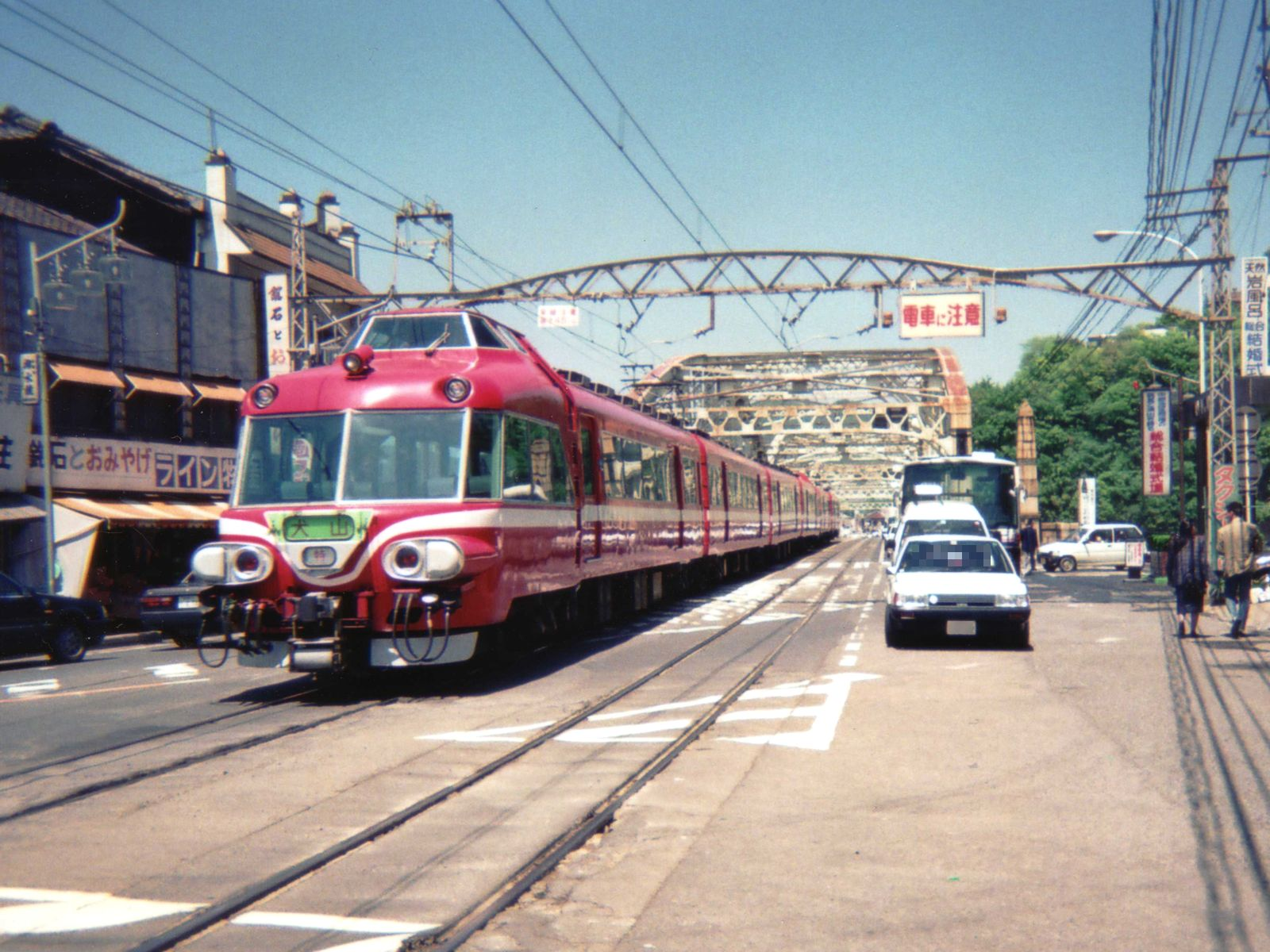 Nagoya Railroad EMU type 7000 "Panorama Car"